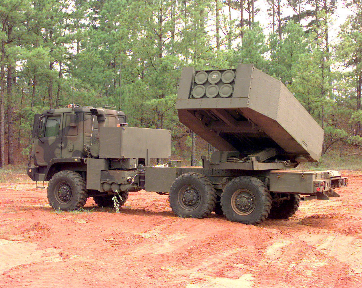 Soldiers from Charlie Battery, 3/27 Field Artillery Regiment out of Fort Bragg, N.C., get ready to aim their High Mobility Artillery Rocket System (HIMARS) as part of the Rapid Force Projection Initiative field experiment (RFPI). This experiment is being used to test new equipment and its usefulness with the light forces in the field.